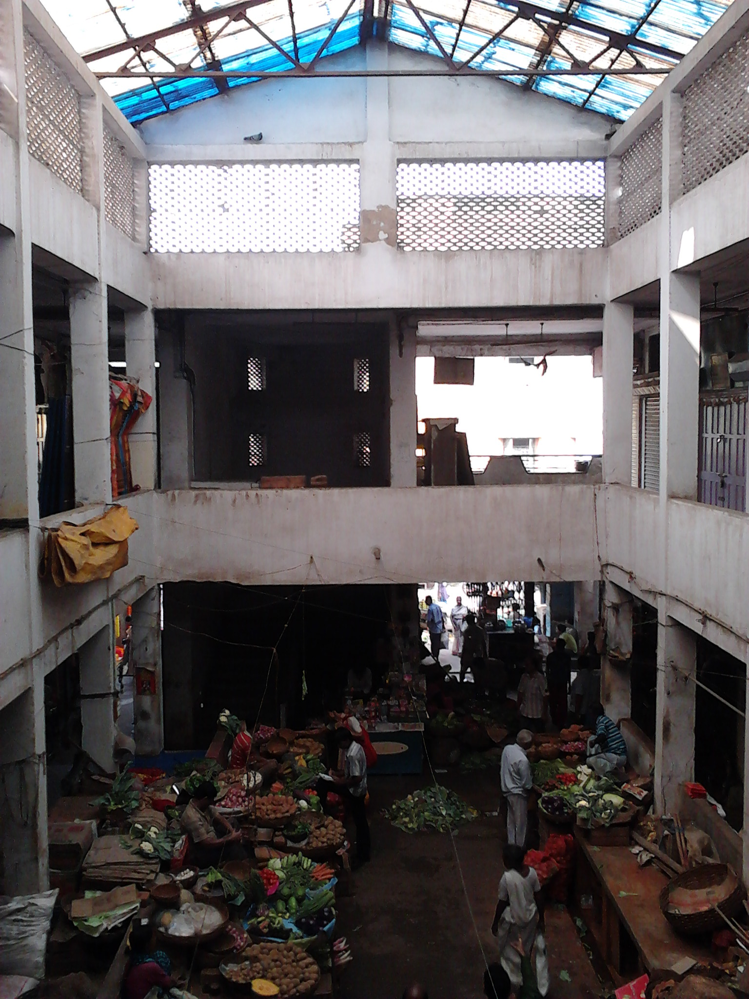 Howrah Municipal Corporation owned market (Danesh Sheikh lane Market) located at 72 Danesh Sheikh lane, Howrah. This media file is uploaded with India loves Wikipedia event.